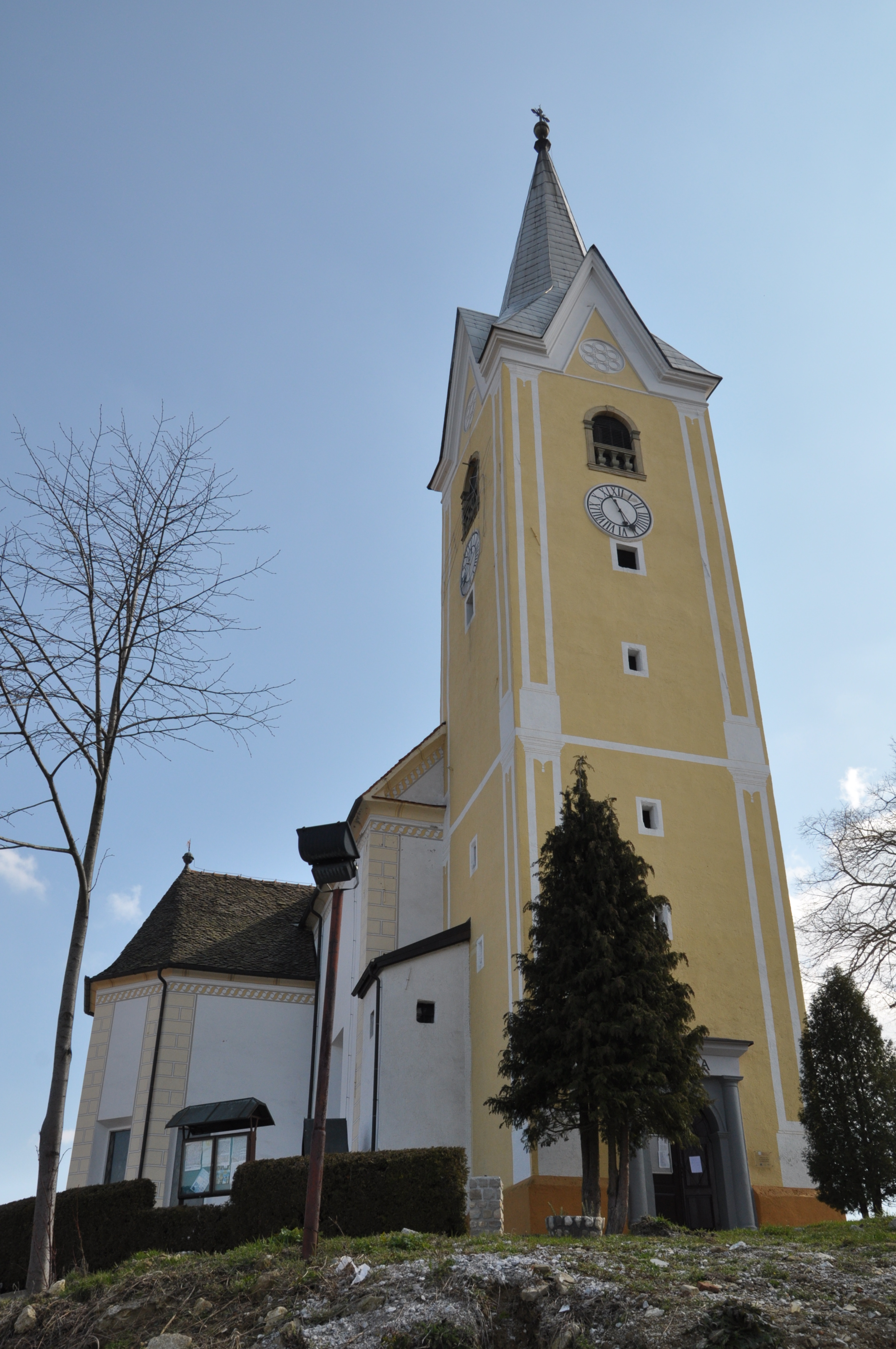 Hemma of Gurk Church, Sveta Ema